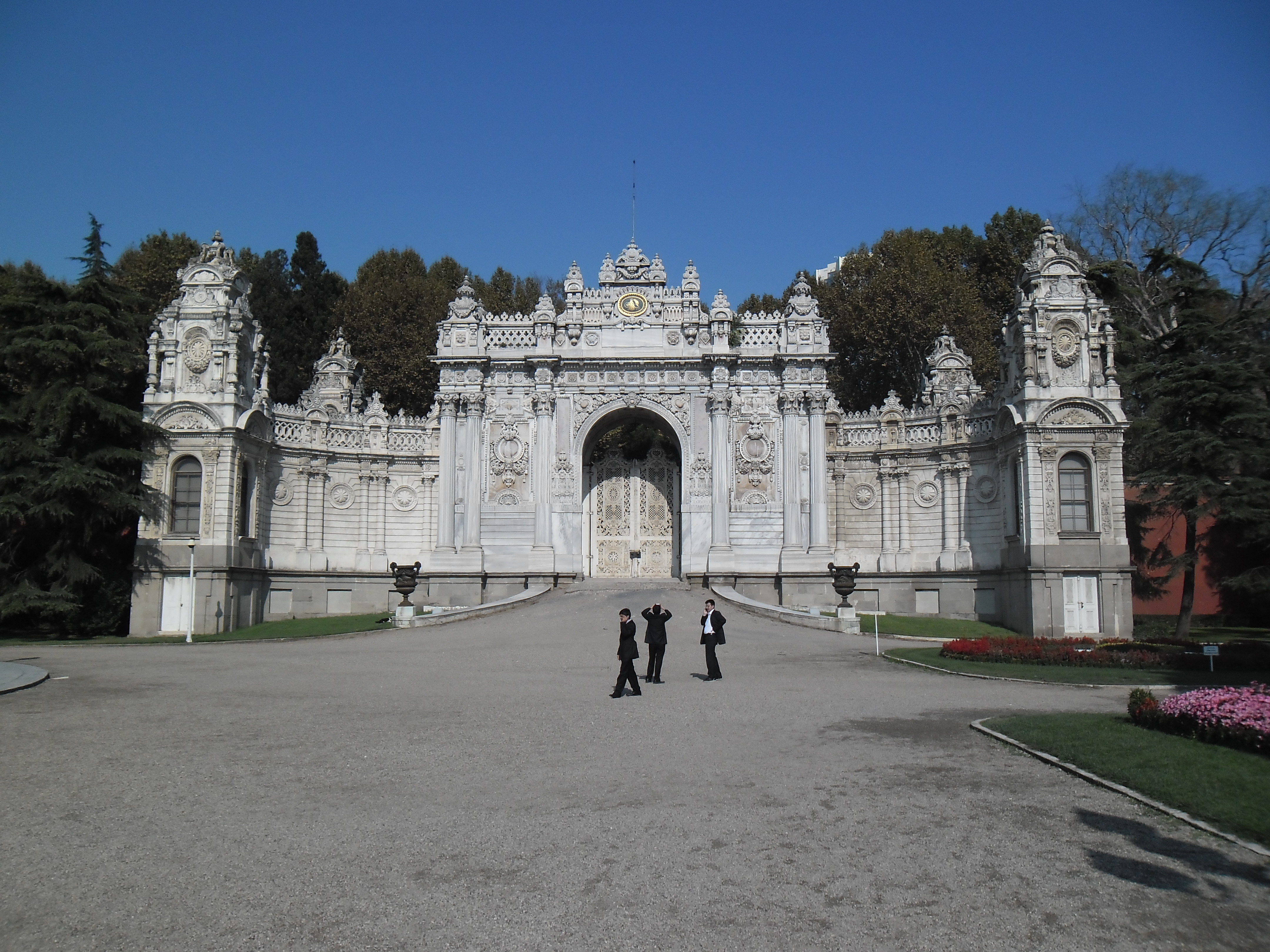 Dolmabahçe second gate.